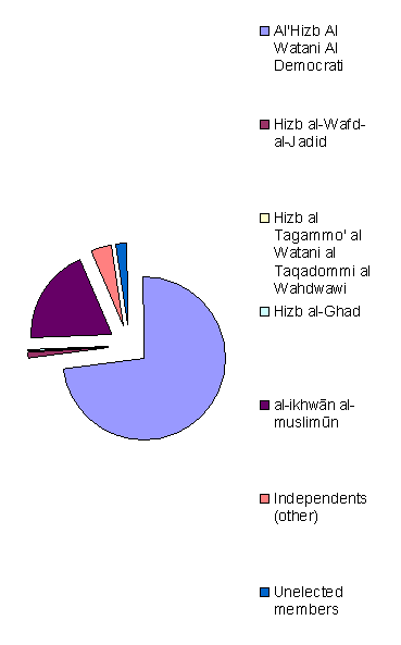 Egyptian parliamentary election of 2005 with logos